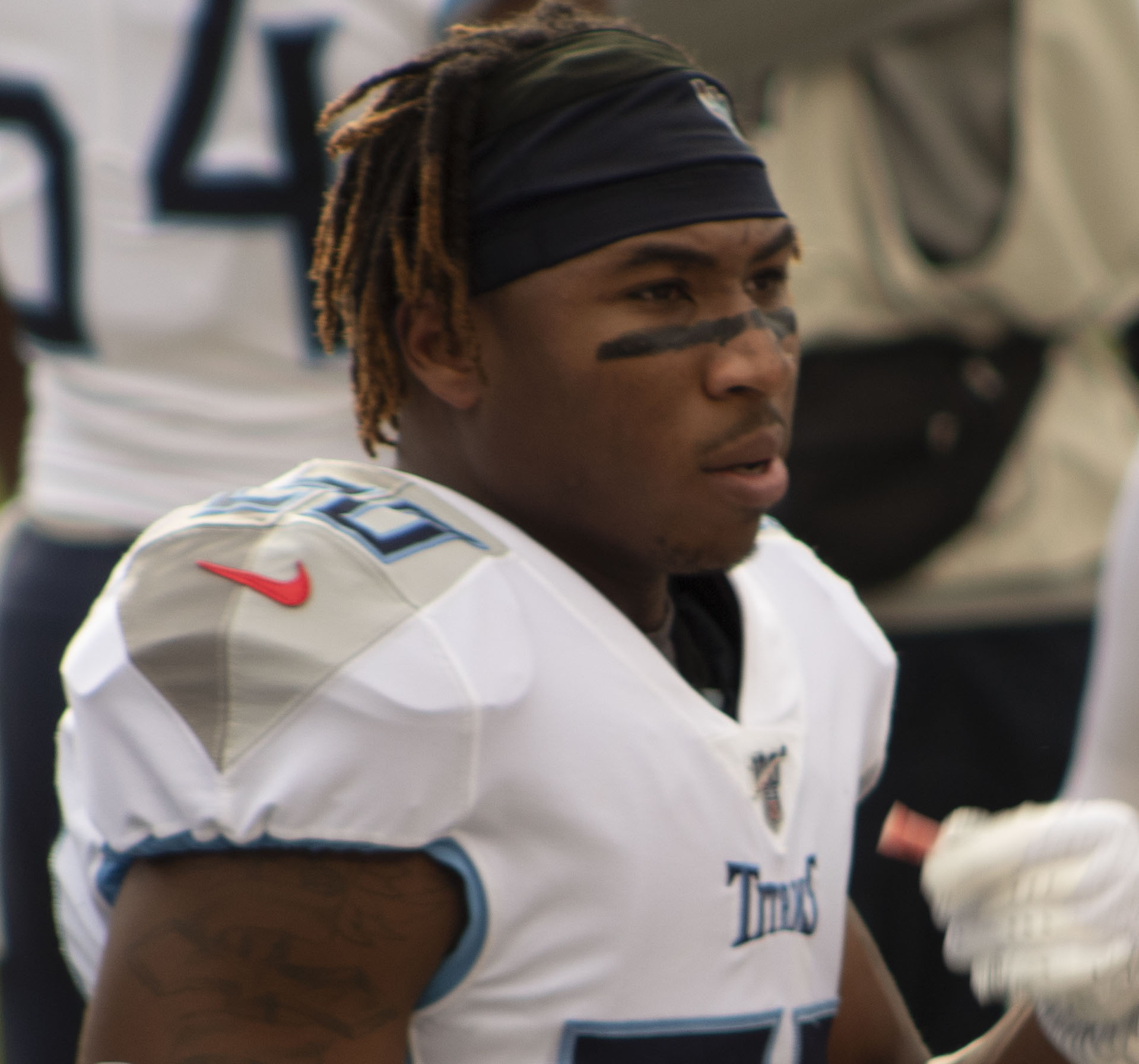 Orr with the Titans on December 8, 2019